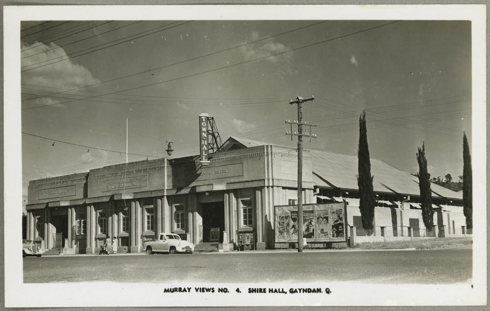 Shire Hall at Gayndah beside the Town Hall theatre.